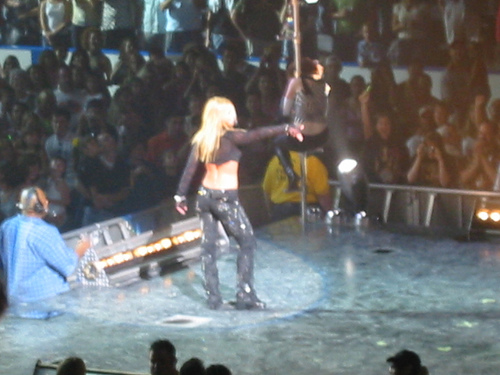 Spears Performing live